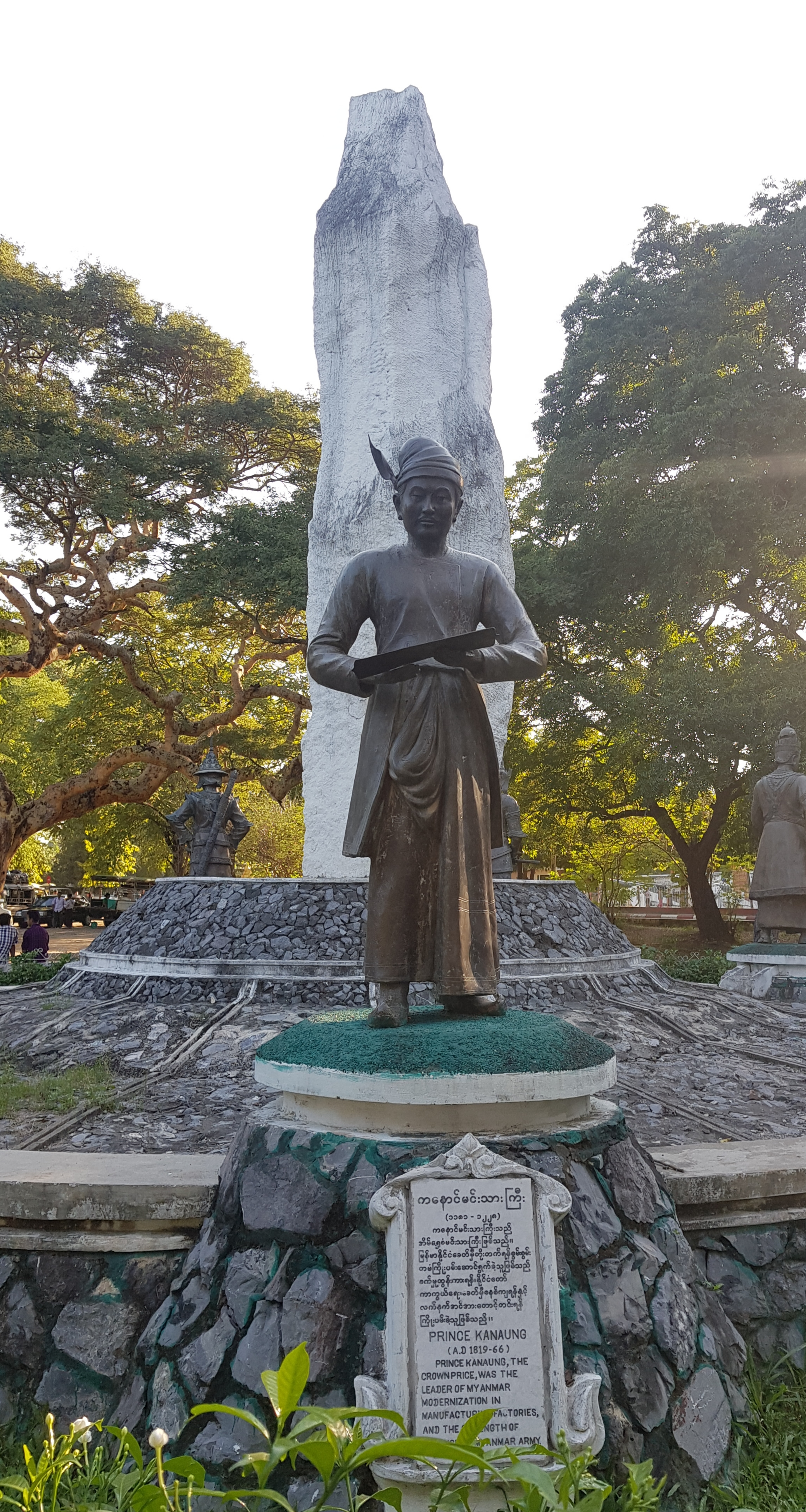 The statute of crown prince Kanaung in Mandalay Palace